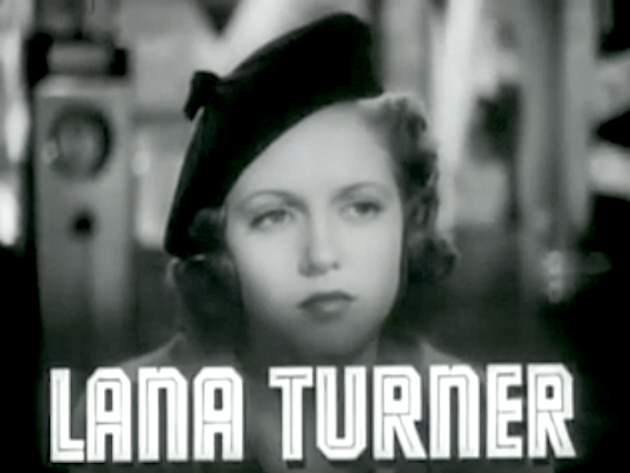 Lana Turner - They Won't Forget trailer screenshot